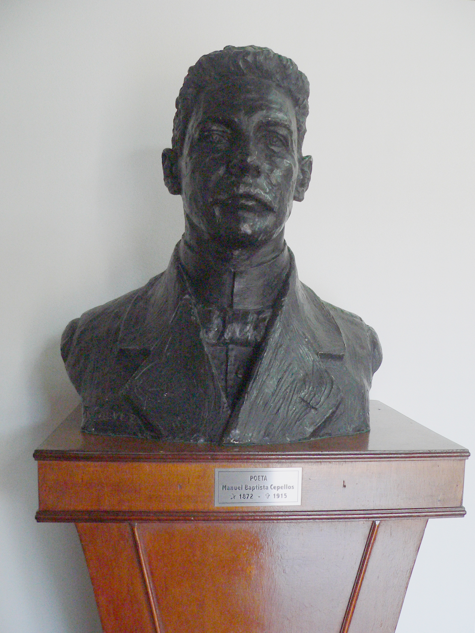 Bust of Batista Cepelos